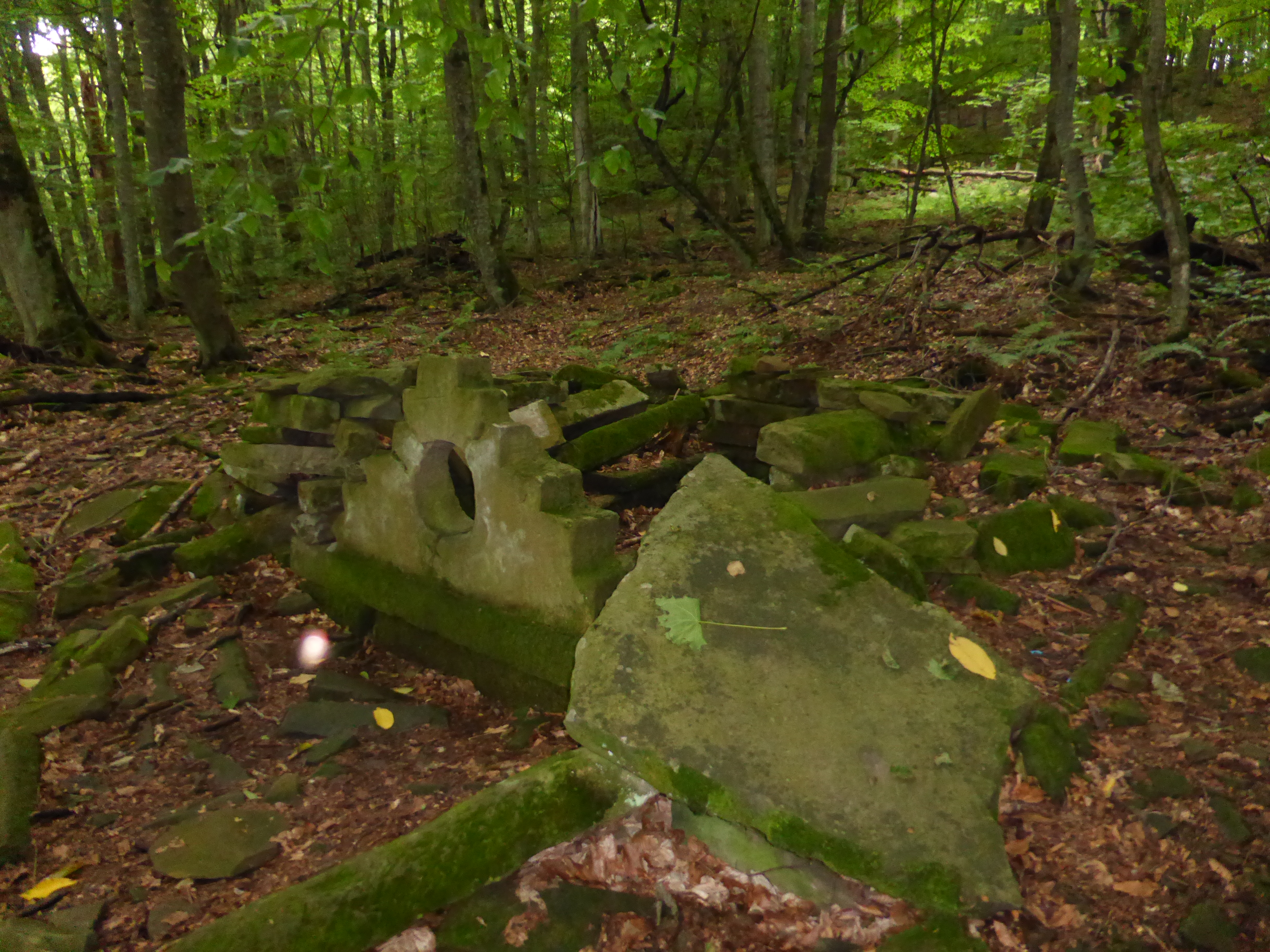 Mound Spire